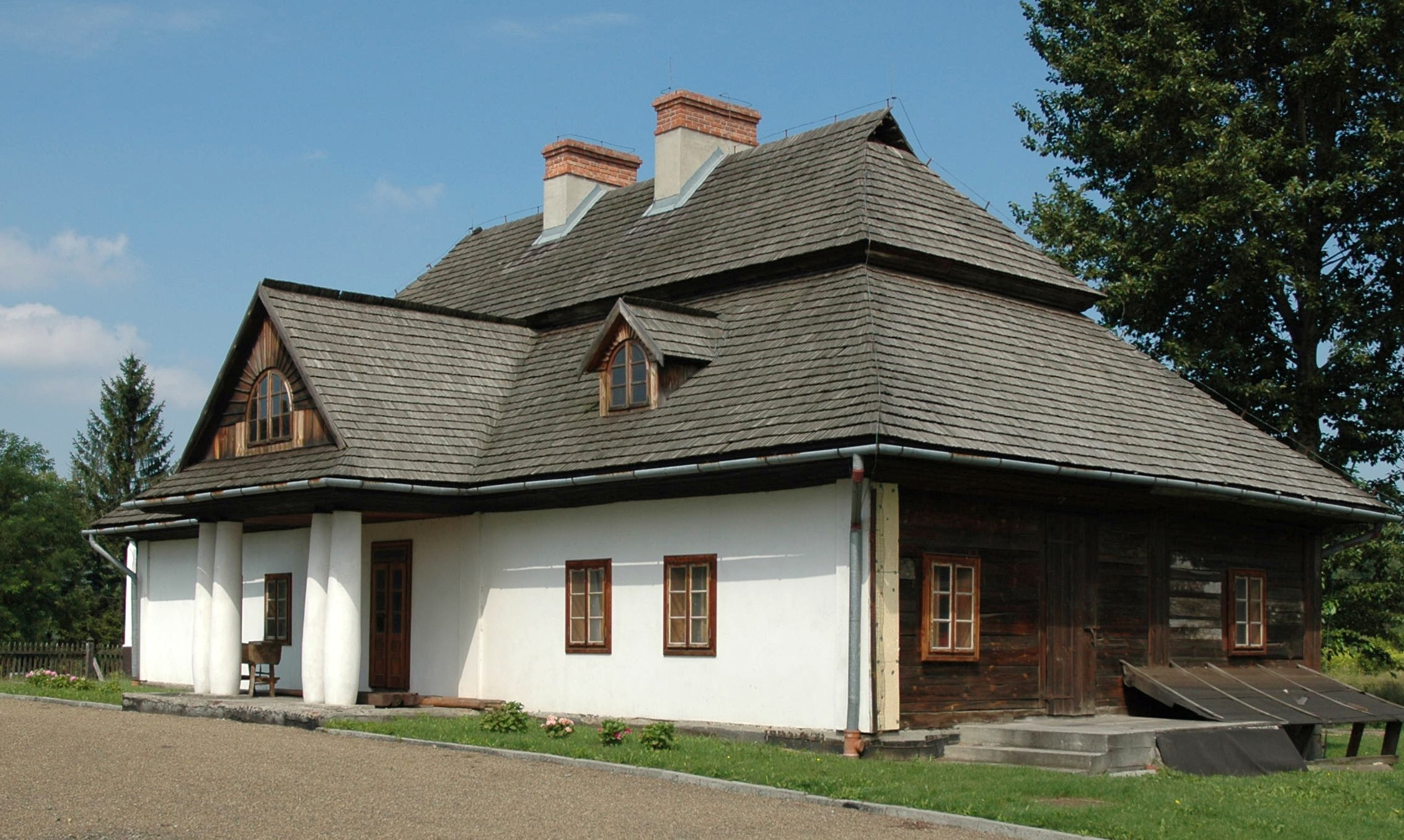 Poland, Przeworsk - Country manor at open air museum